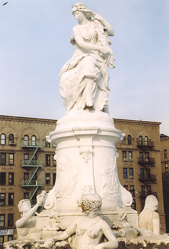 Ernst Herter (1846–1917) Description German sculptor Date of birth/death14 May 184619 December 1917Location of birth/deathBerlinBerlinWork locationBerlinAuthority control VIAF: 77111692 LCCN: n87129740 GND: 118774247 ULAN: 500267506 ISNI: 0000 0001 2102 5176 WorldCat